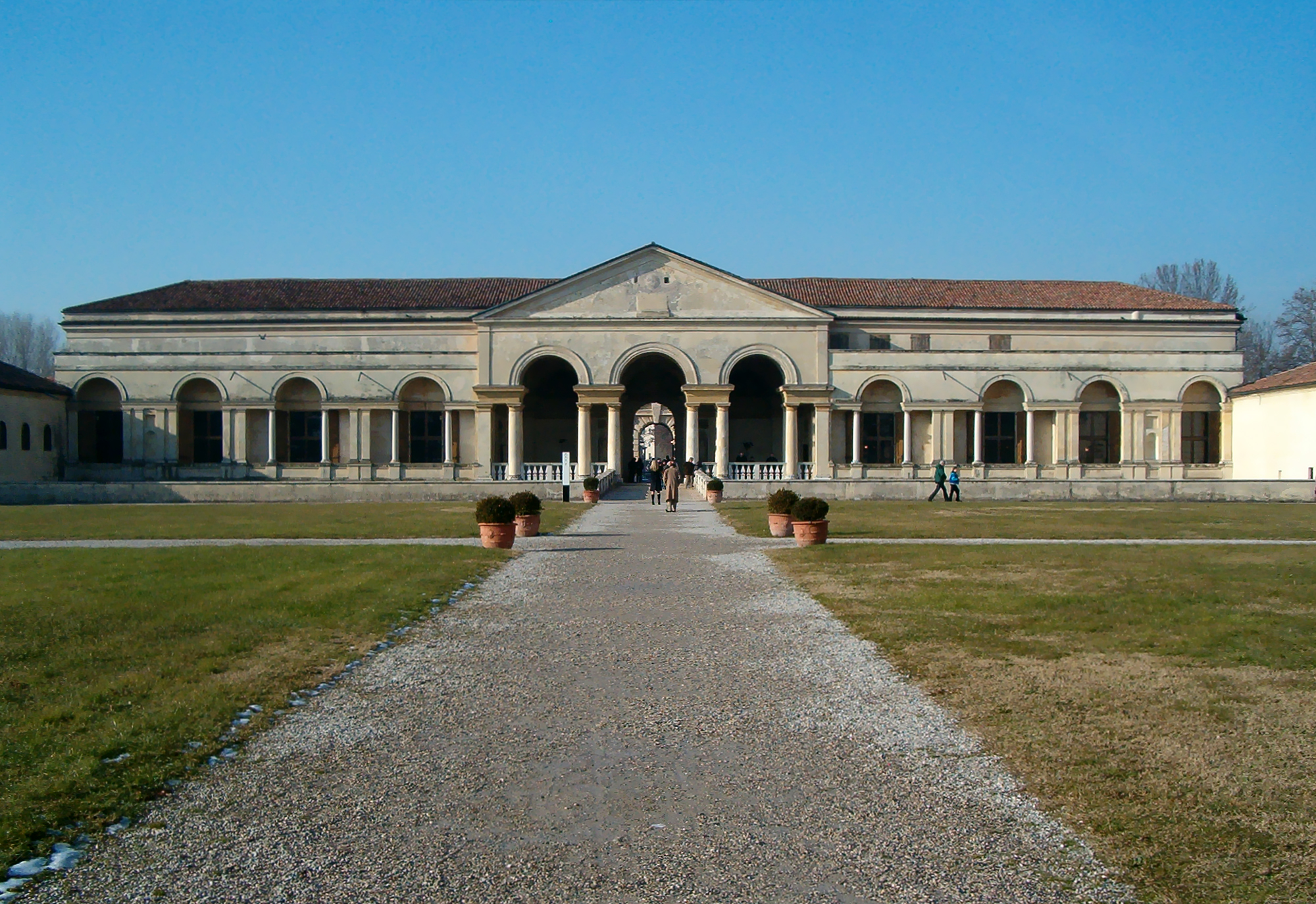 Palazzo Te in Mantova, Italy - Photo taken by Marcok of wikipedia on January 7, 2006